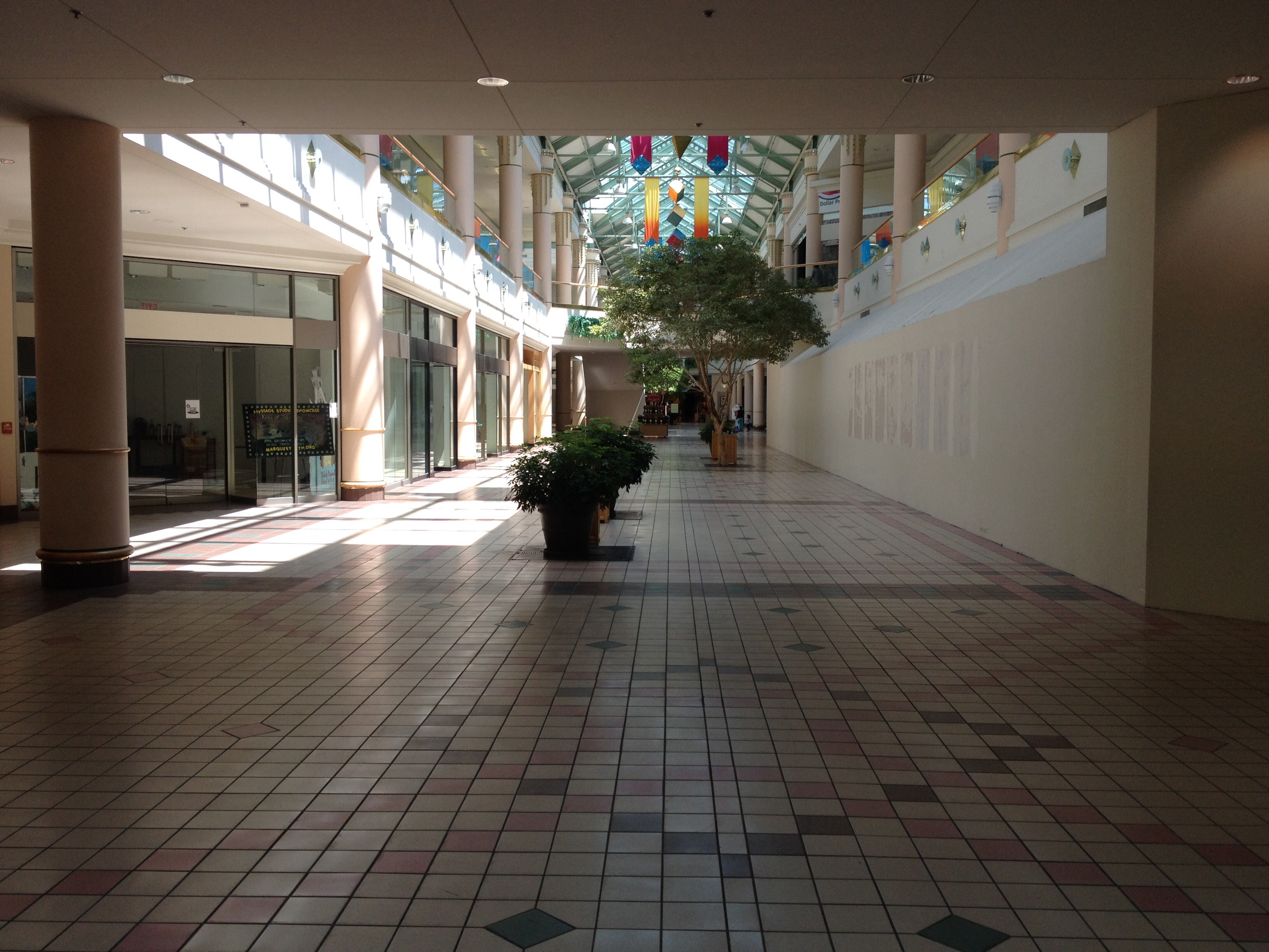 Charlestowne Mall in late May 2014, before construction for The Quad St. Charles